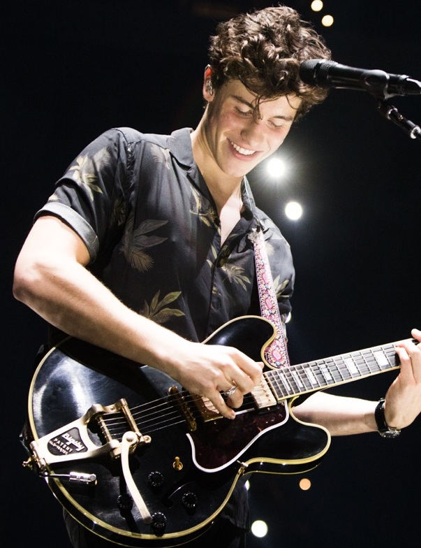 own work photograph of Shawn Mendes in 2017